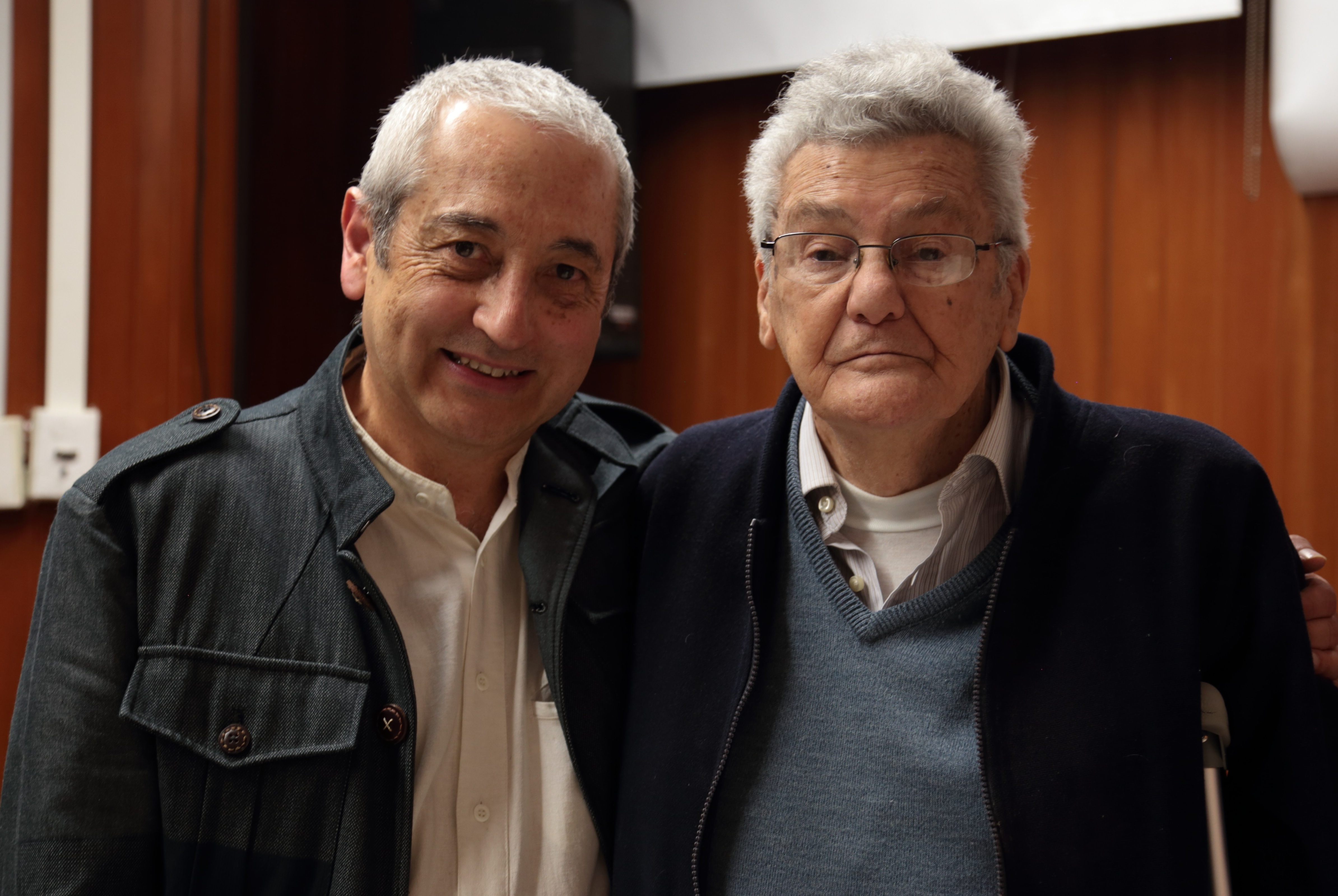 Alberto Paredes y Federico Álvarez en la Facultad de Filosofía y Letras, UNAM, 2015